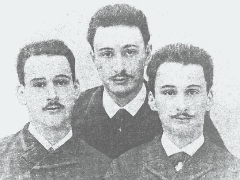 Left to right: brothers Dinu (Constantin), Ionel (Ion I. C.) and Vintilă Brătianu, as adolescents (1885). All three were sons of the long-lived Prime Minister Ion Brătianu, and each became politically relevant in his own right.